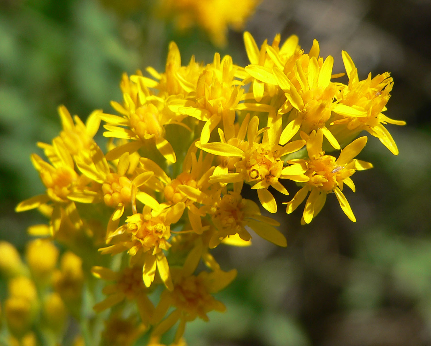 Solidago velutina subsp. sparsiflora in Rainbow Canyon just above the Rainbow Subdivision, Kyle Canyon, Spring Mountains, southern Nevada (elev. about 2300 m)